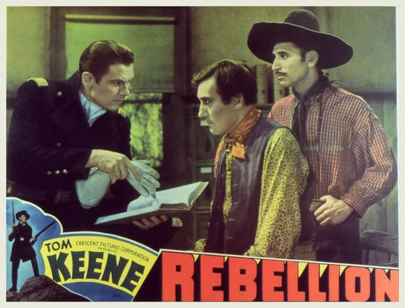 Lobby card for the American western film Rebellion (1936). Renewal searches were done in both film and artwork for the years 1963 and 1964. There were no listings for the title in film nor any for "Crescent" in artwork. There's no evidence of the film and its related items still under copyright.